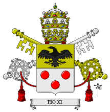 Coats of Arms of Pius XI, Pope.